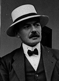 Camilo C. Restrepo by Benjamín de la Calle